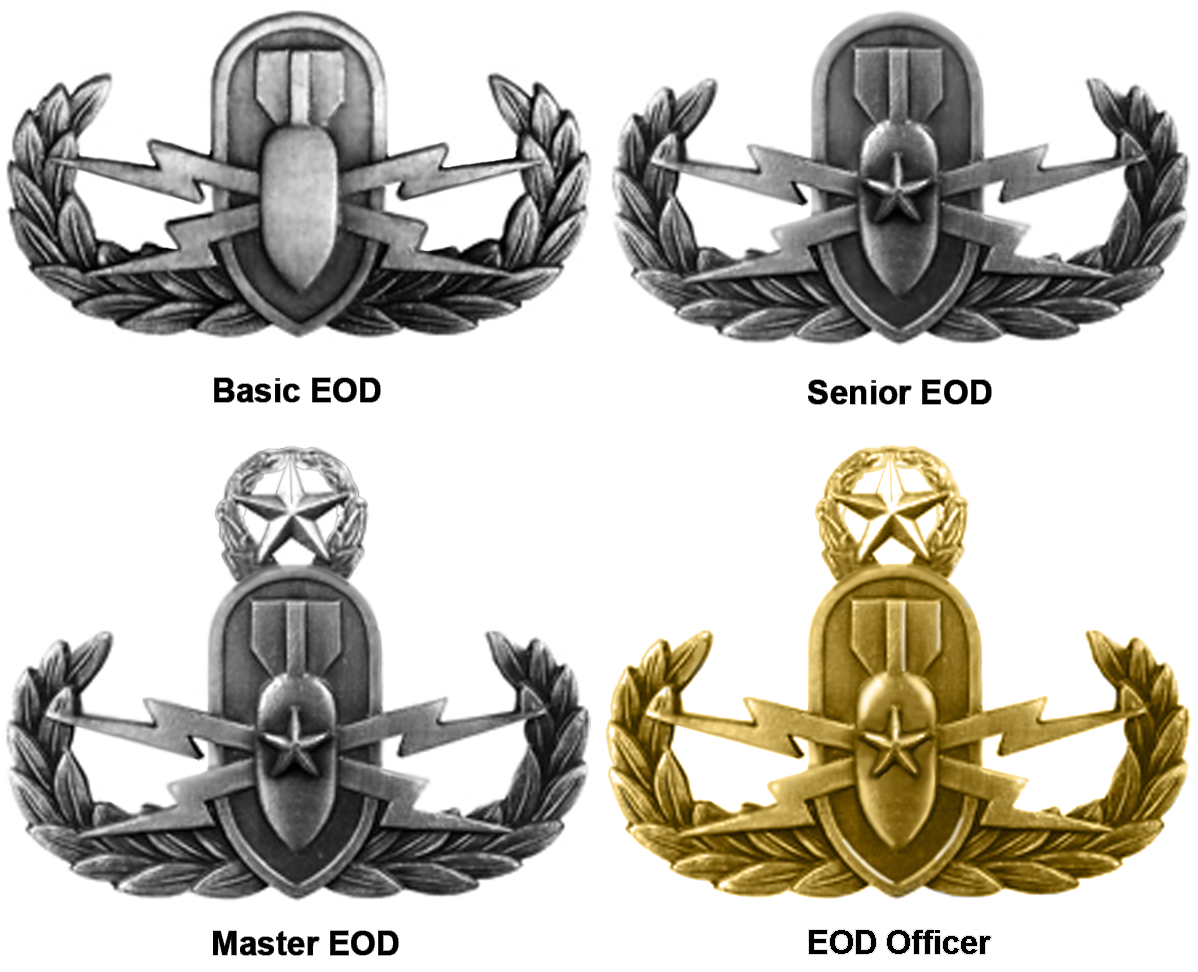 Image of Explosive Ordnance Disposal insignia used in the US military. For use in military articles concerning awards.